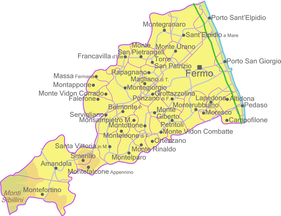 Map of the Province of Fermo, Italy